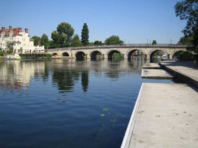 Maidenhead Bridge & River Thames. Viewed looking upstream, see 205279 for details of the bridge.